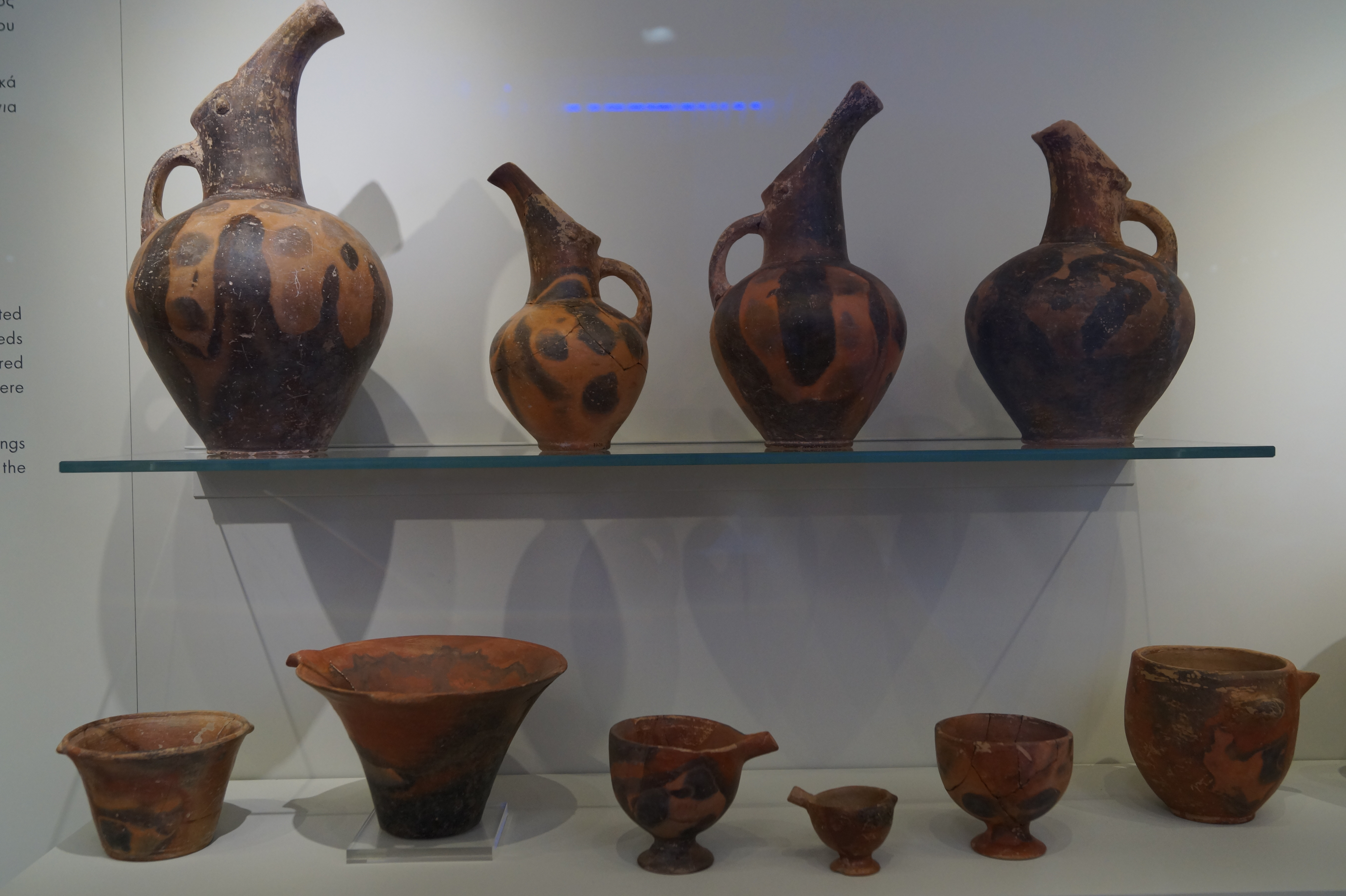 Archaeological Museum of Heraklion: Vasiliki style pottery from Vasiliki, Crete.